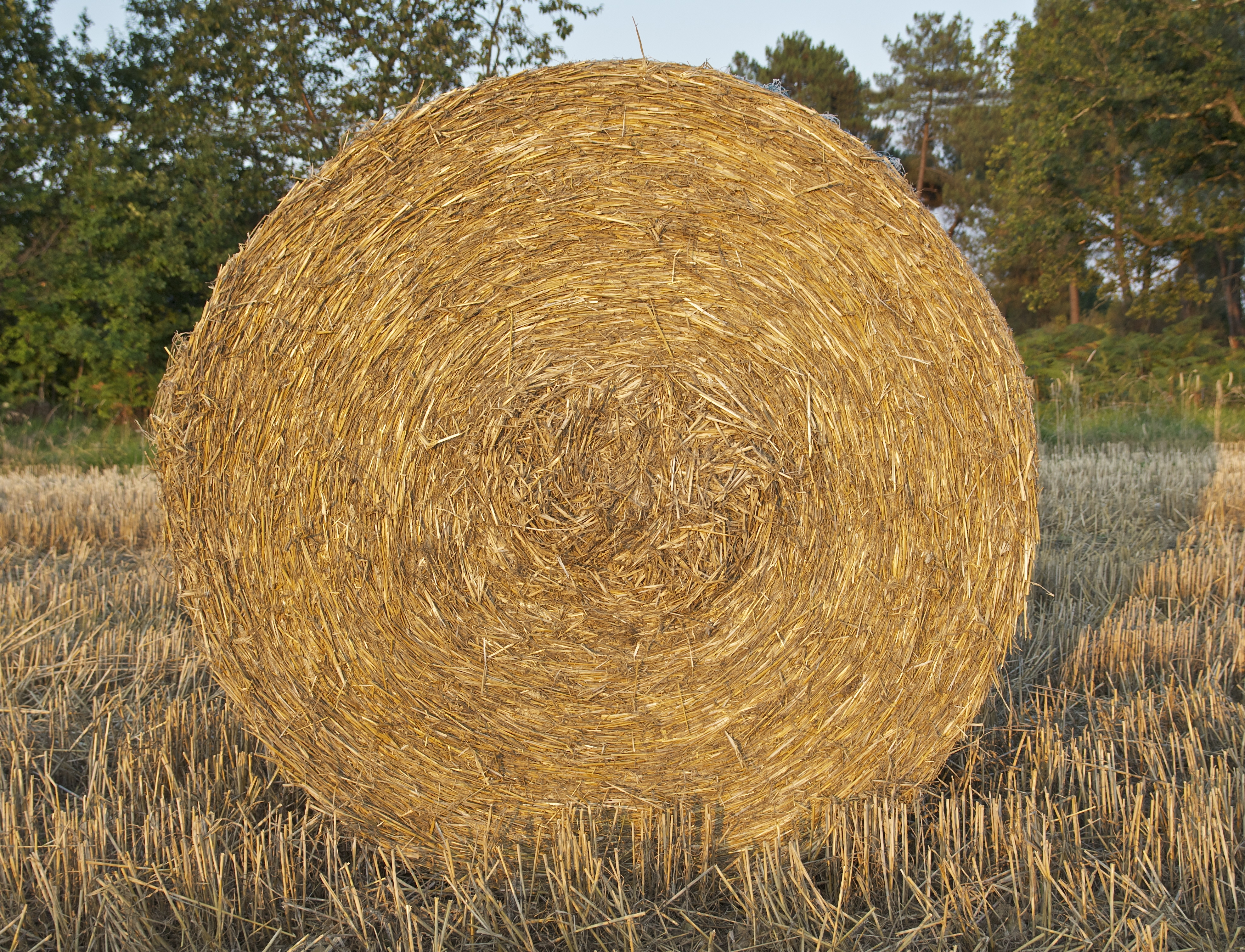 A round straw bale in a field in Dordogne, summer evening light.